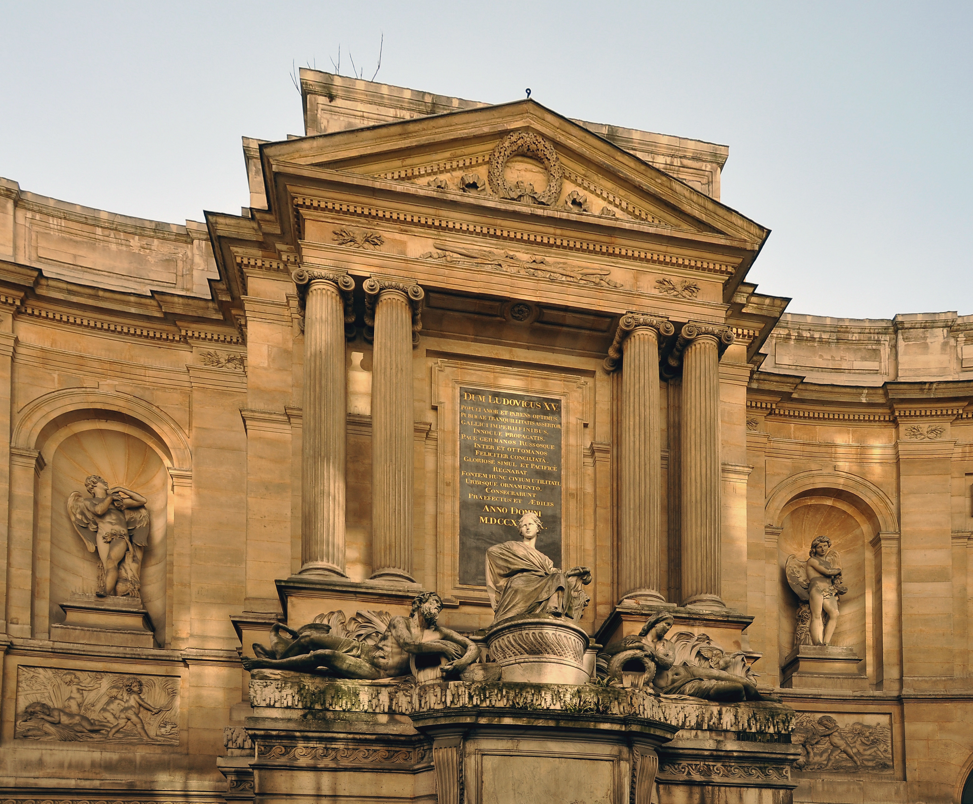 Four-saisons Fountain in the 7th district of Paris, France. Sculpted by Edmé Bouchardon in 1745. .